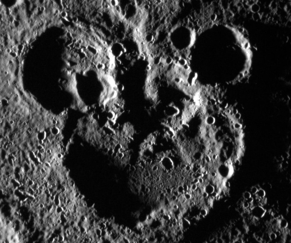 Picture of the Disney crater on Mercury